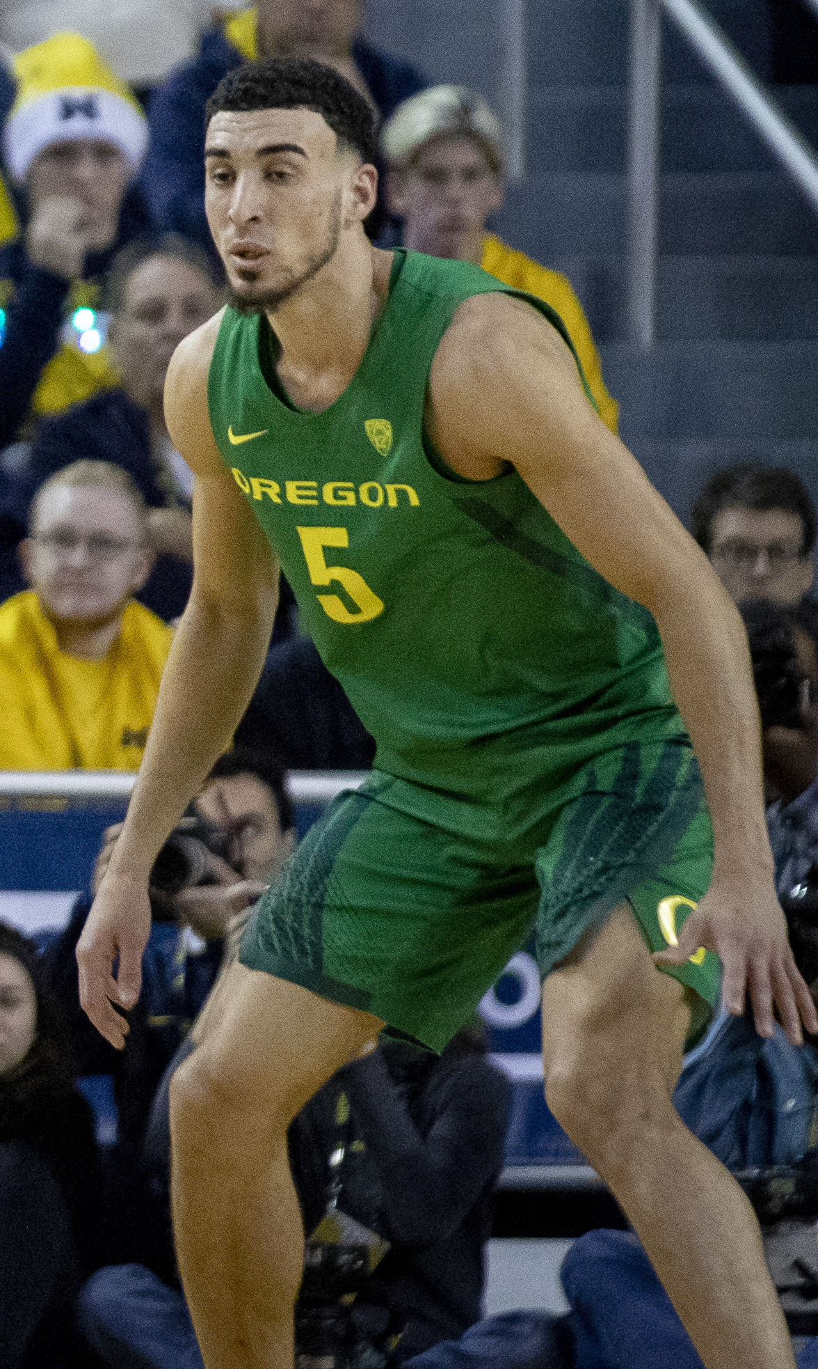 _O6A3279